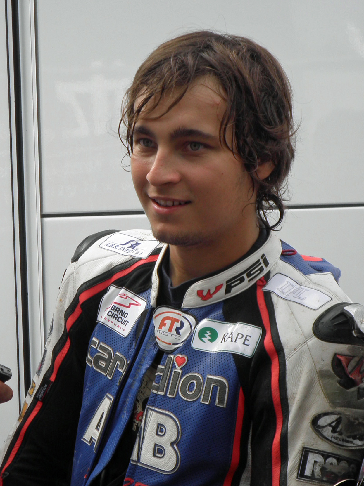 Czech motorcycle racer Karel Abraham on Moto GP 2010 in Brno Circuit This is cropped version. Original size is here.